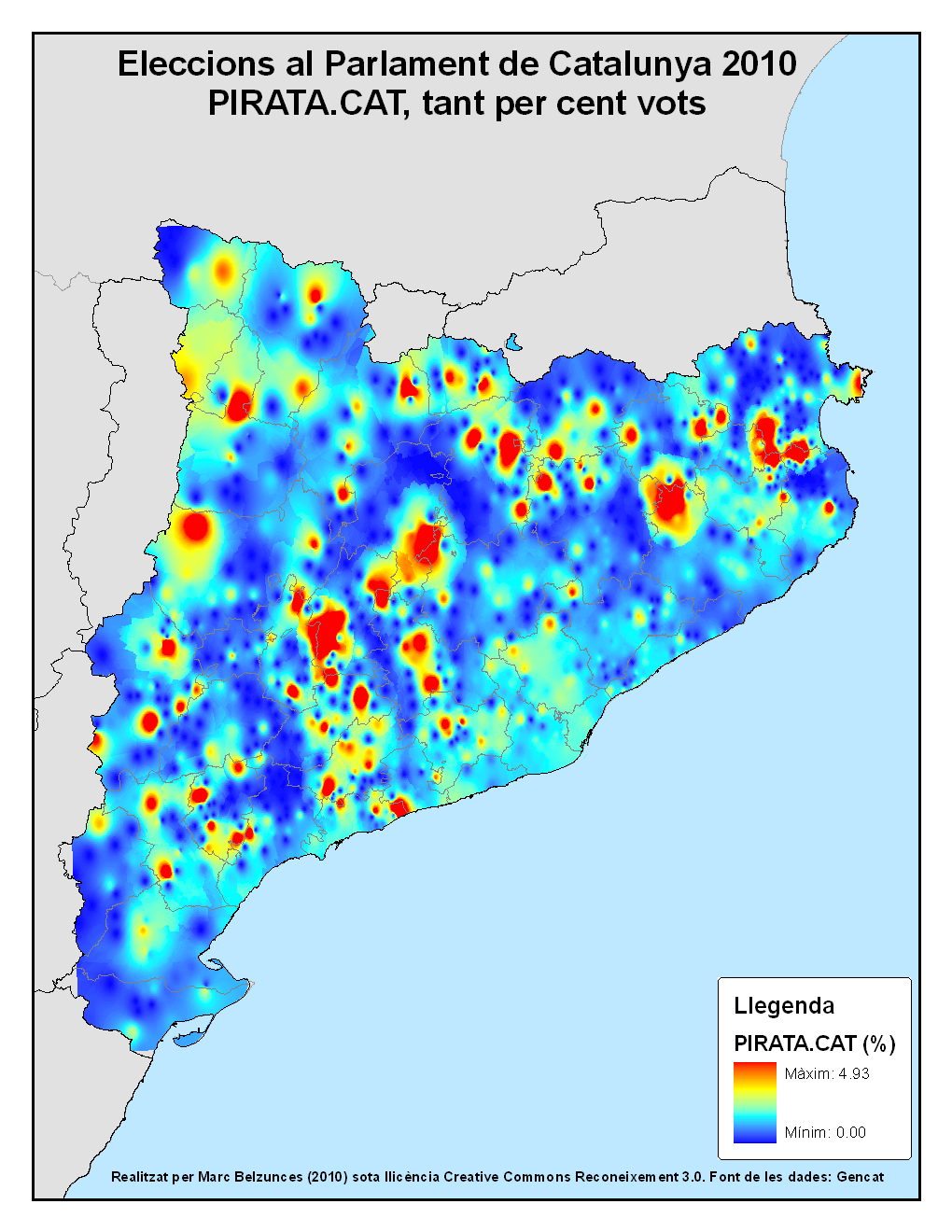 Distribution of Pirates de Catalunya (Pirates of Catalonia) vote in elections to the Parliament of Catalonia 2010.